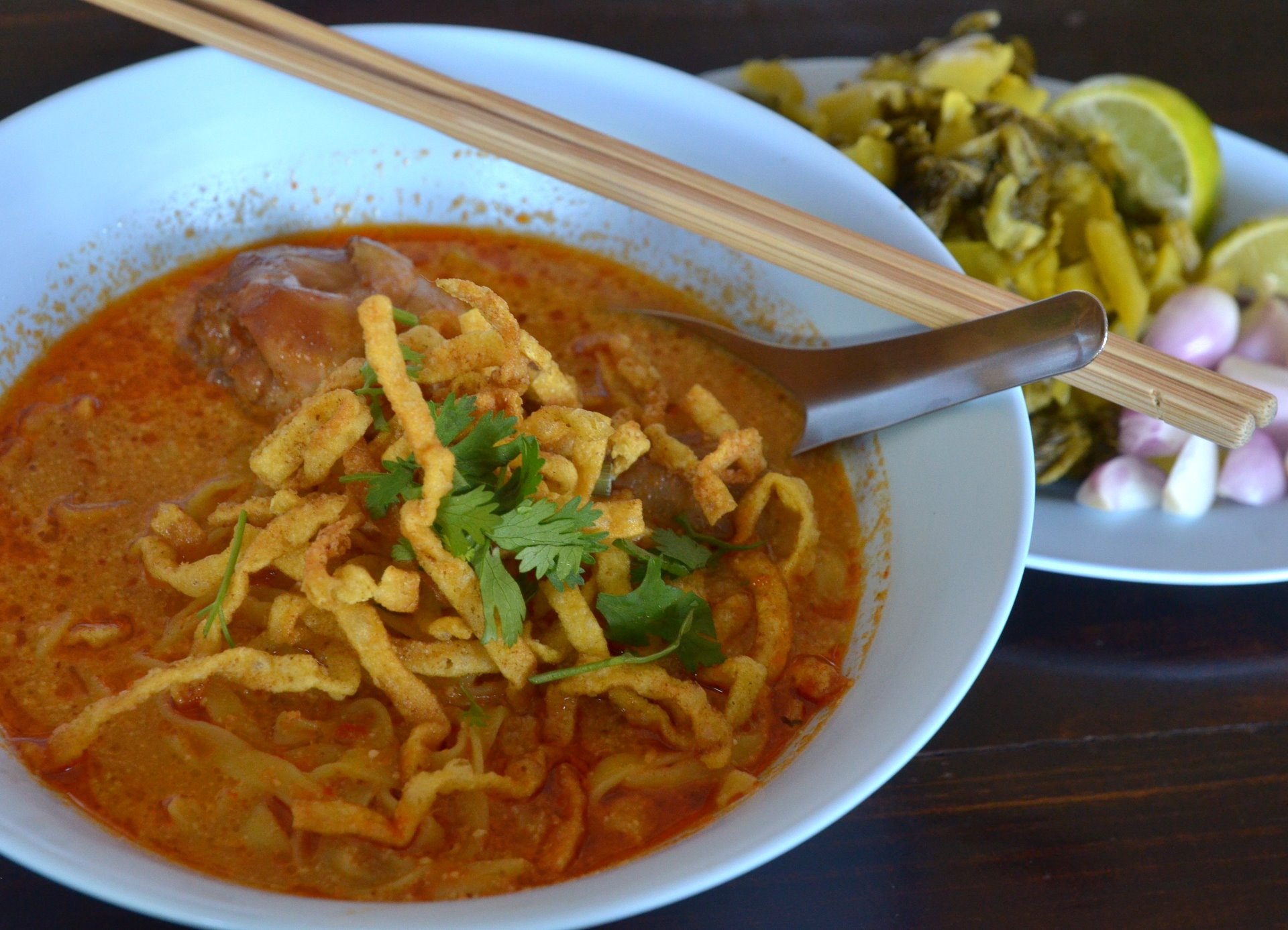 Khao soi is a Thai noodle dish made with fresh egg noodles and deep-fried egg noodles served in a curry-like broth. This version is with chicken. Shallots, pickled cabbage and limes are provided on the side as additional ingredients to be added to taste. The dish is a speciality of Northern Thailand.